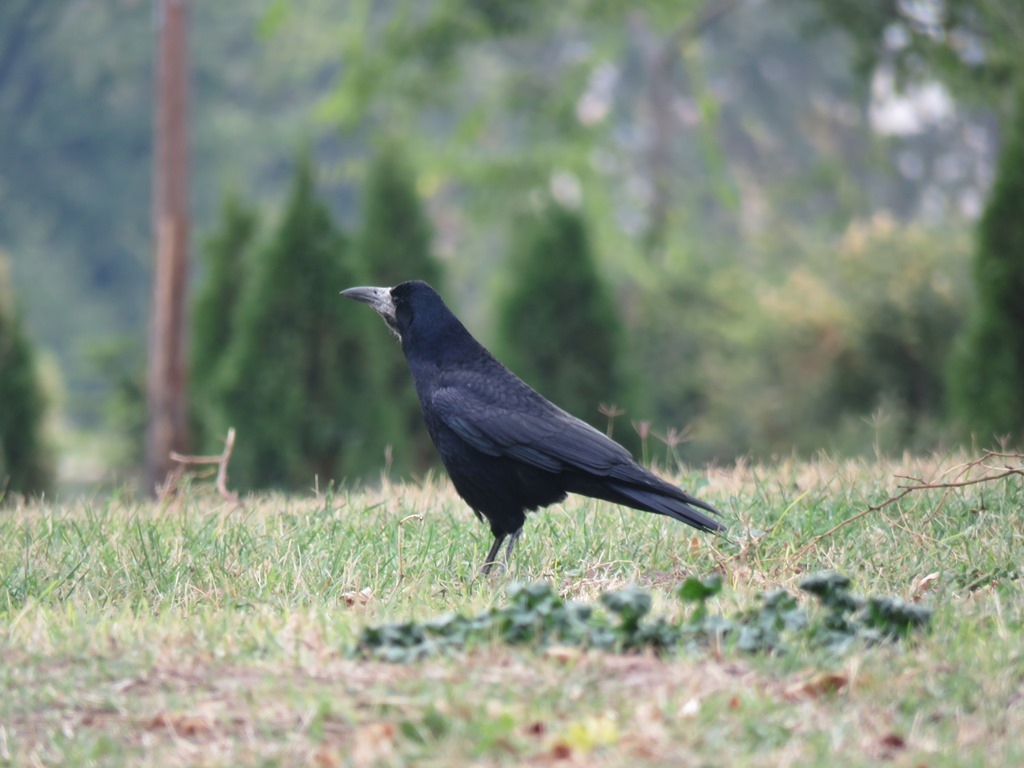 Ptice niških parkova